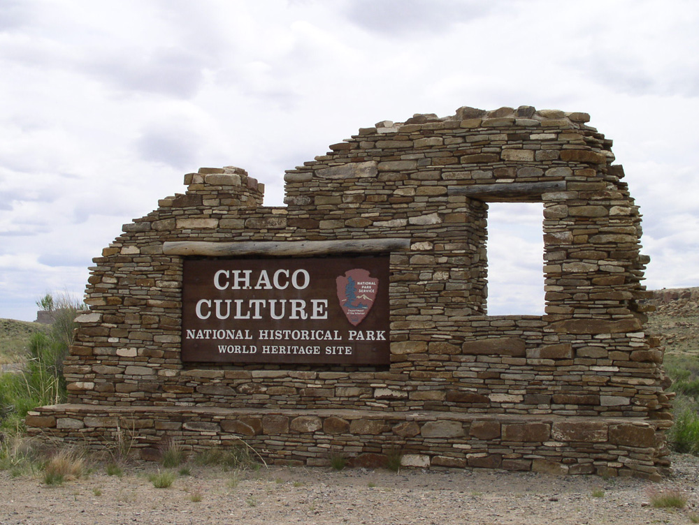 The park enterance at the Chaco Canyon